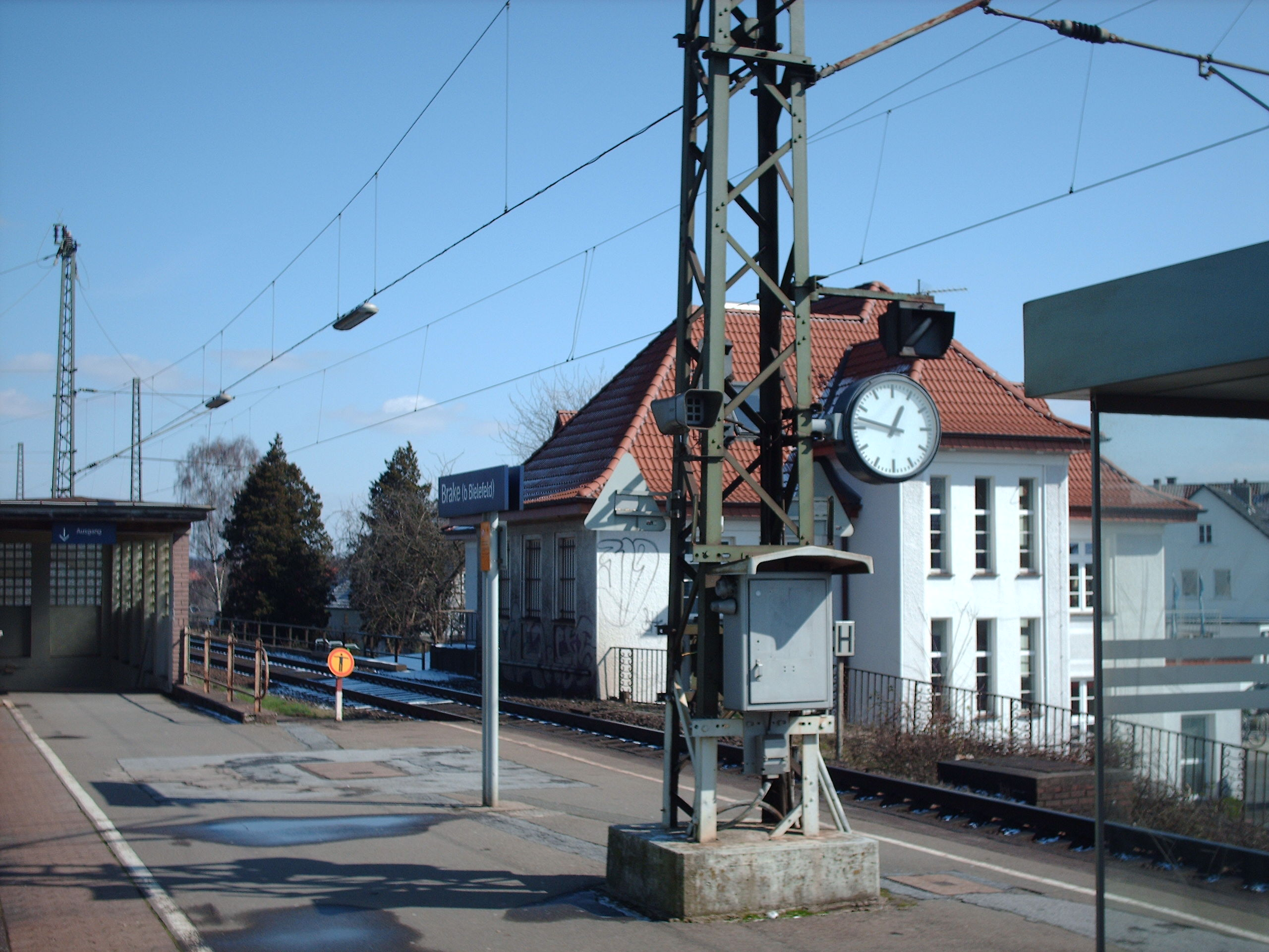 Brake (b Bielefeld) station, Bielefeld, Germany check usage